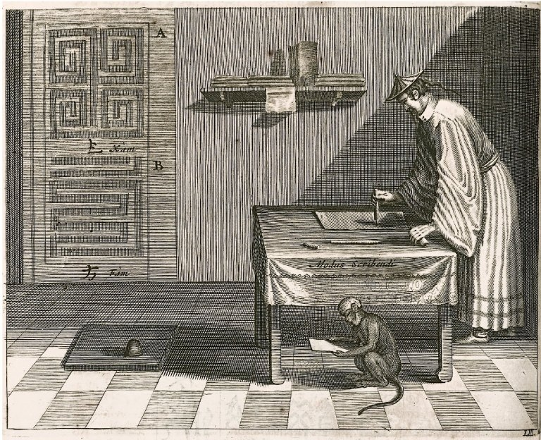 Image shows the proper brush grip for Chinese calligraphy. The scribe is writing in a standing position, bending over a table which is covered by a tablecloth. Next to the table, a monkey (Ape of Nature) appears to be reading from one sheet. A large inkstone rests on the floor. Stylized characters on the wall represent Celestial Realm. Illustration from p. 310 of Kircher’s La Chine.